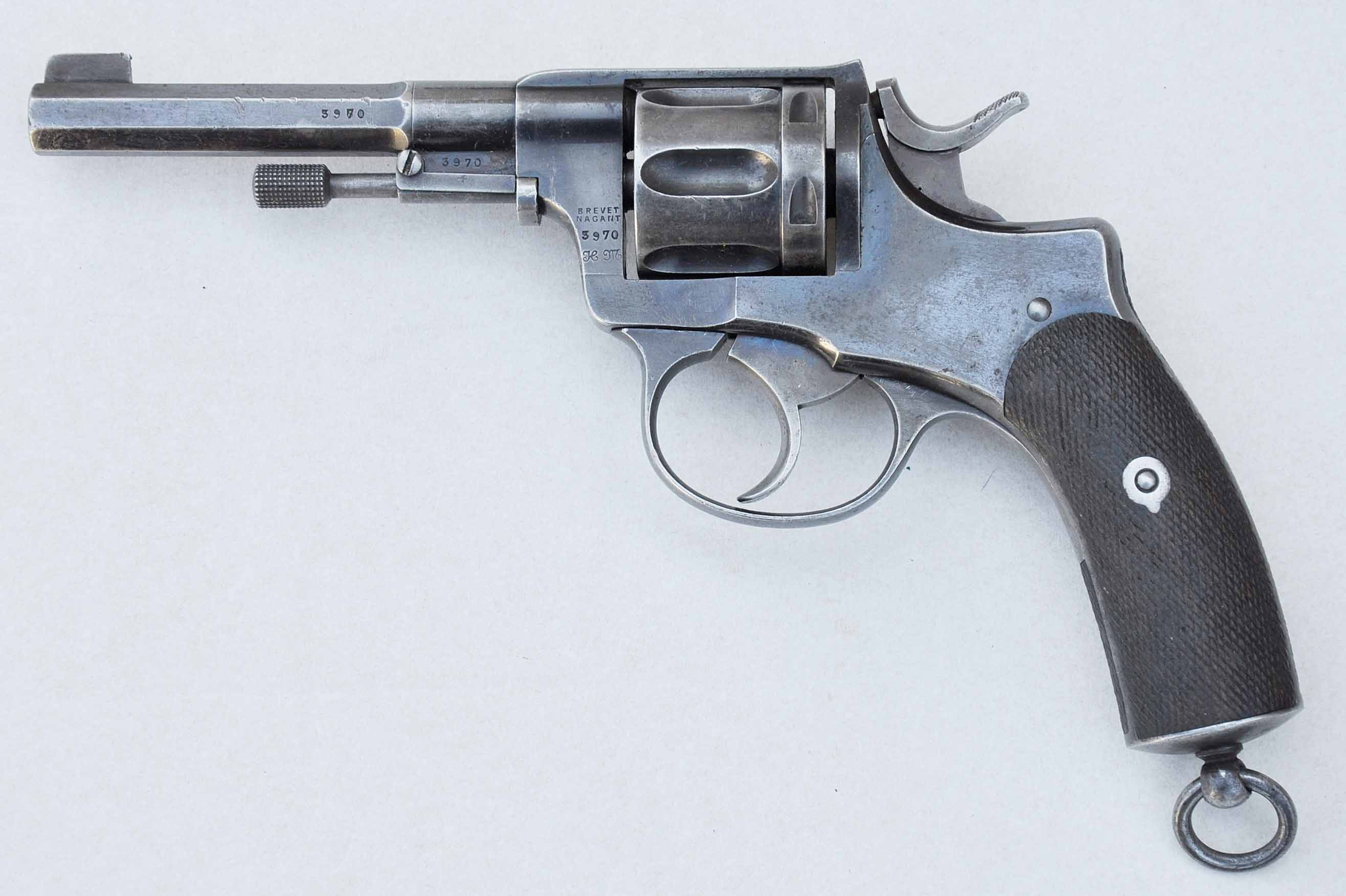 7,5 mm selvspent Nagant revolver anskaffet til Marinen